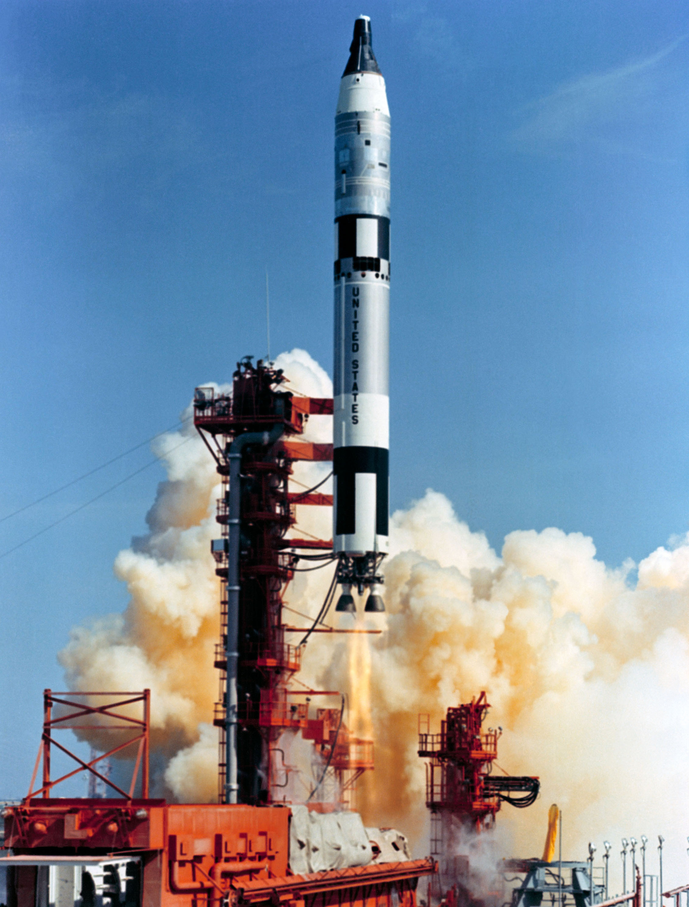 S65-28694 - The National Aeronautics and Space Administration launched the Gemini-5 spacecraft from Pad 19 at 9 a.m. (EST) Aug. 21, 1965, on a planned eight-day orbital mission. Astronaut L. Gordon Cooper Jr. was the command pilot and astronaut Charles Conrad Jr. was the pilot. A full duration mission will achieve the longest manned spaceflight to date.